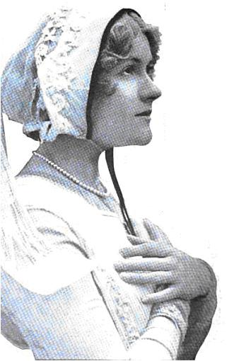 Actress Emmy Wehlen ca. 1912